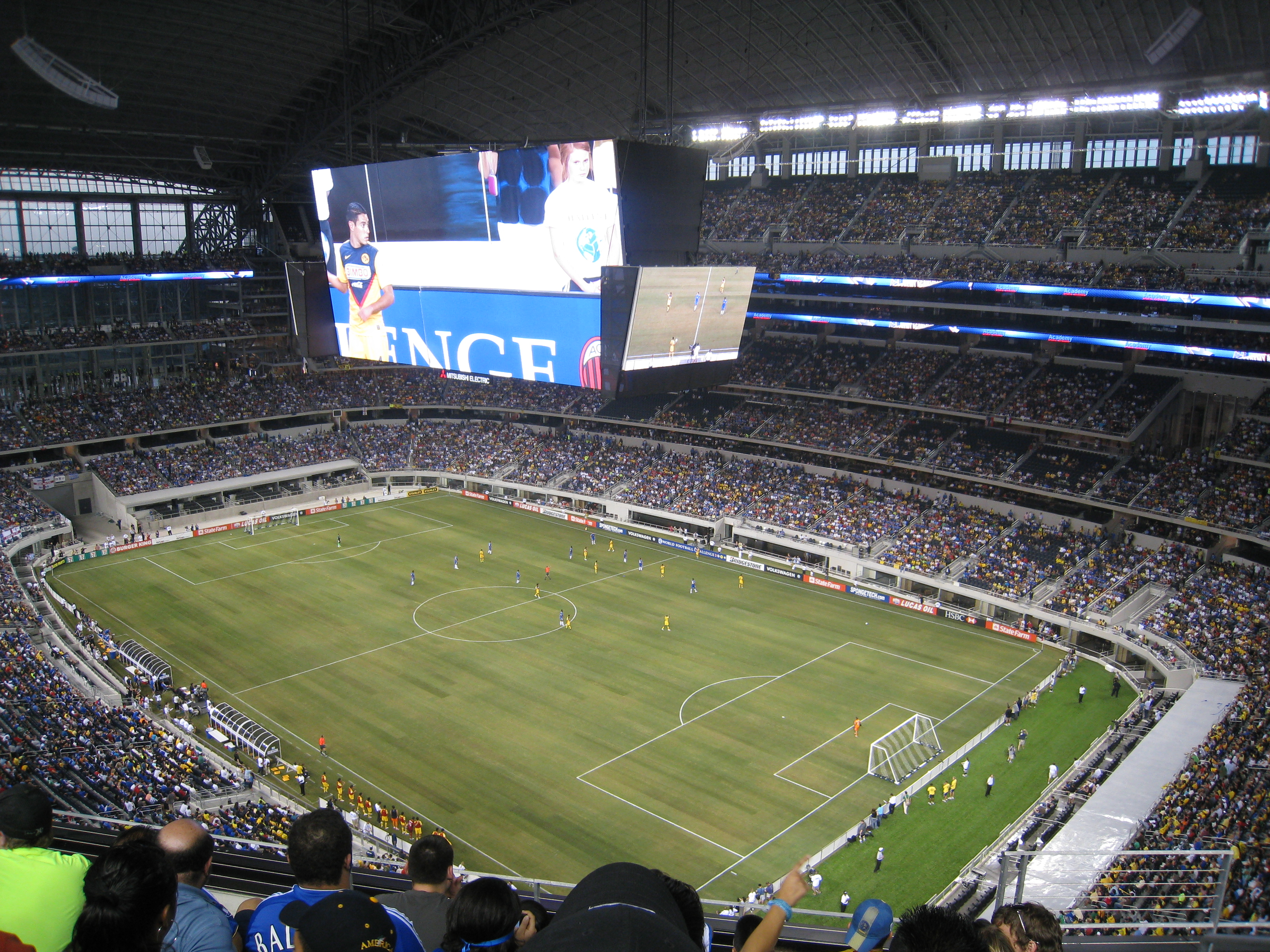 cowboys stadium. chelsea vs club america for the world football challenge 2009